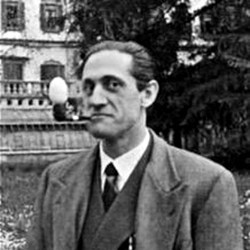 Guglielmo Ulrich